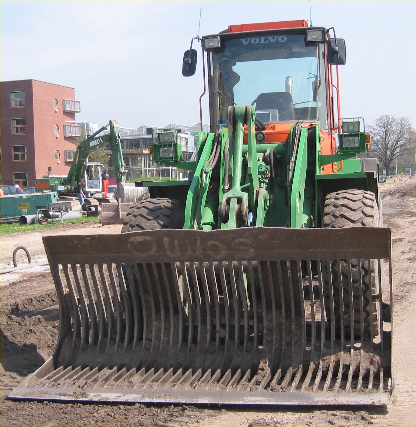 Volvo loader